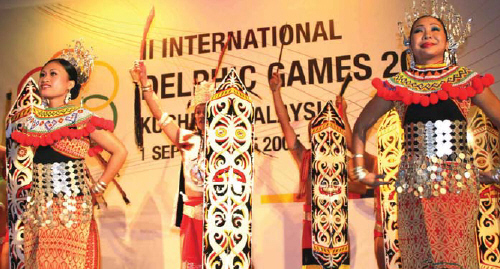 This image was copied from ru. The original description was: International Delphic Council